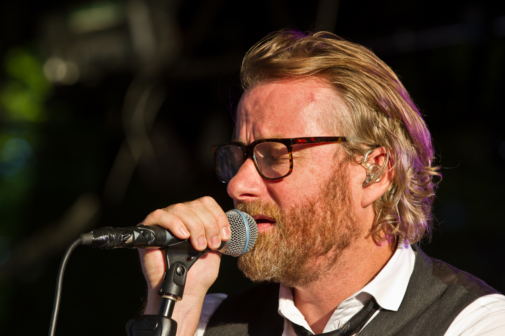 Matt Berninger of The National at Tanzbrunnen Cologne